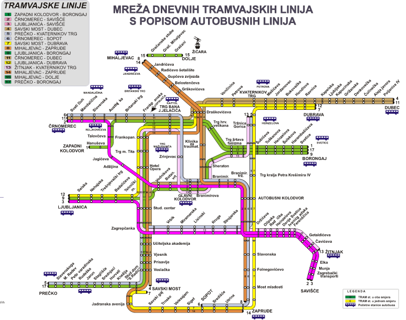 Map of ZET